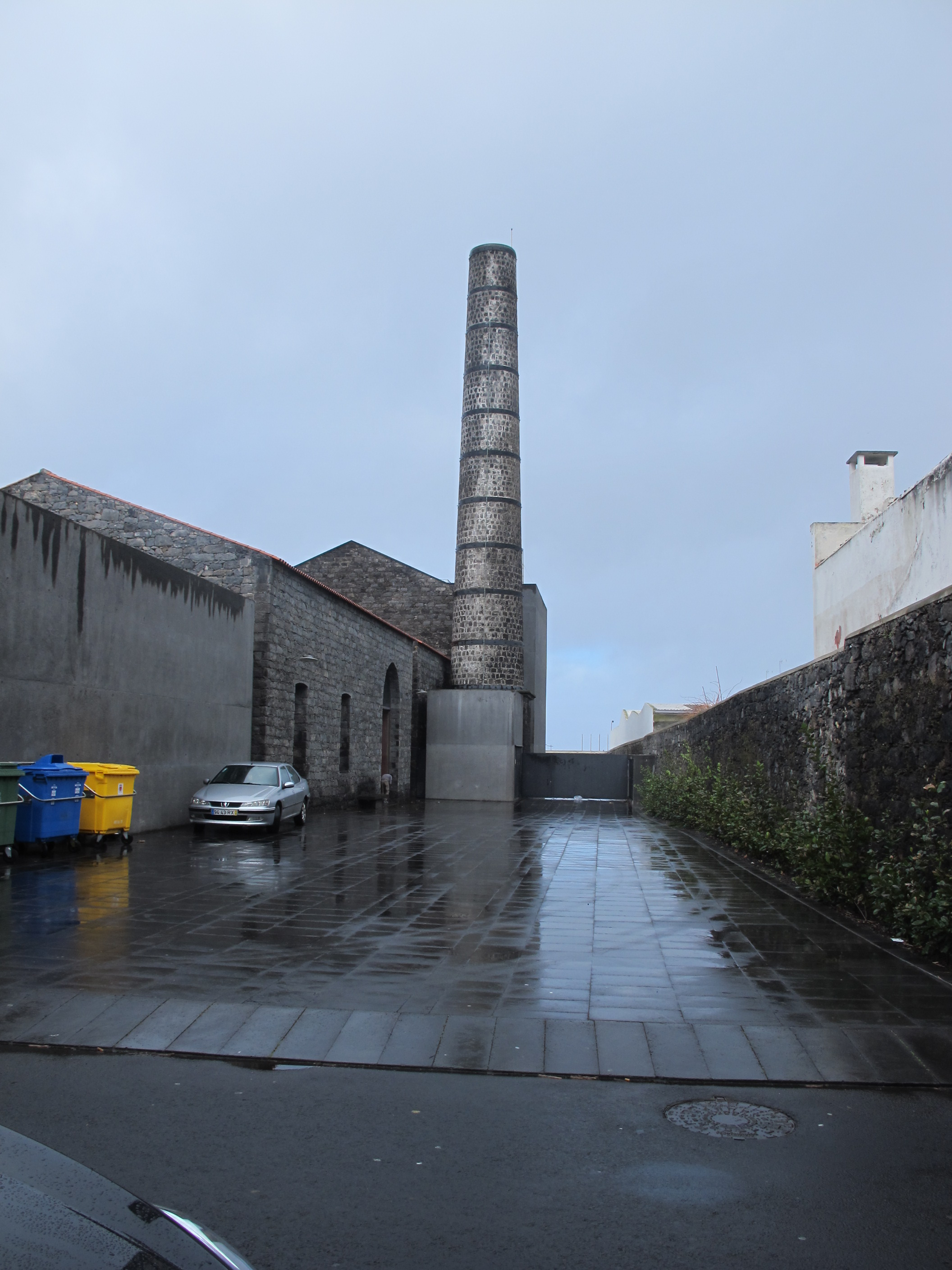 Art Museum Arquipélago - Centro de Artes Contemporâneas